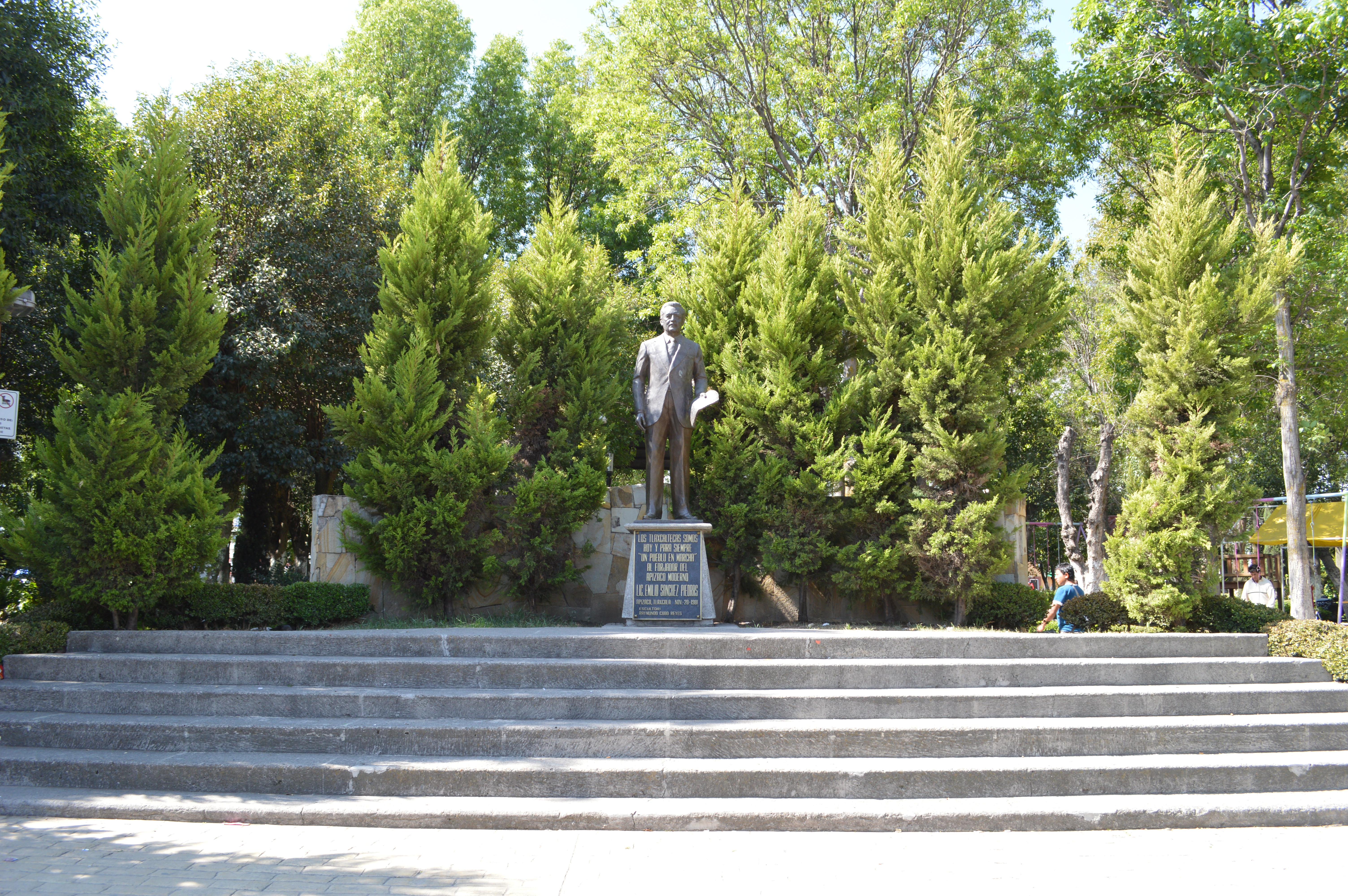 View of Parque Cuauhtemoc in Apizaco, Tlaxcala, Mexico